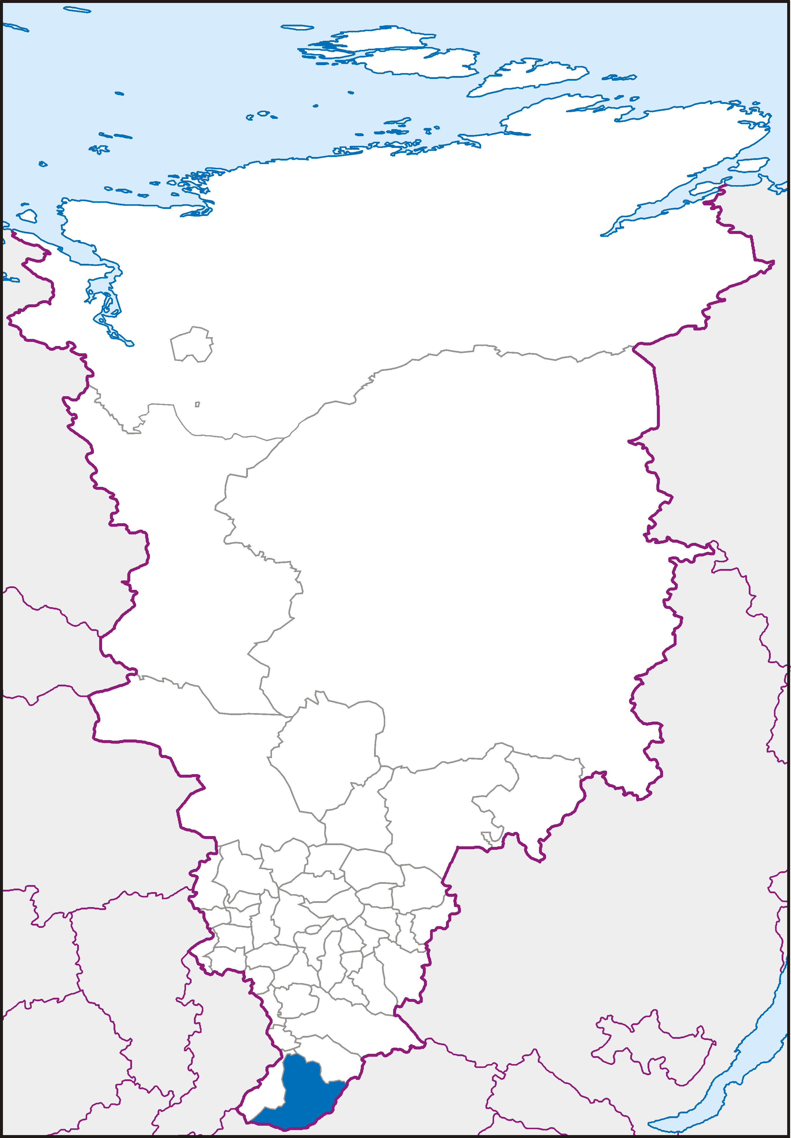 Map of Krasnoyarsk Krai in Albers Equal-Area Conic projection (Central Meridian = 95° E)